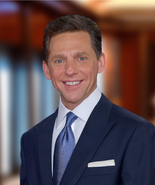 David Miscavige is the ecclesiastical leader of the Scientology religion. From his position as Chairman of the Board of Religious Technology Center (RTC), Mr. Miscavige bears the ultimate responsibility for ensuring the standard and pure application of L. Ron Hubbard’s technologies of Dianetics and Scientology and for Keeping Scientology Working.